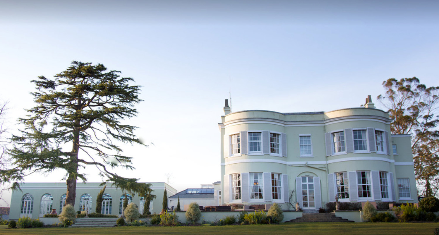 Deer Park Country House, Honiton